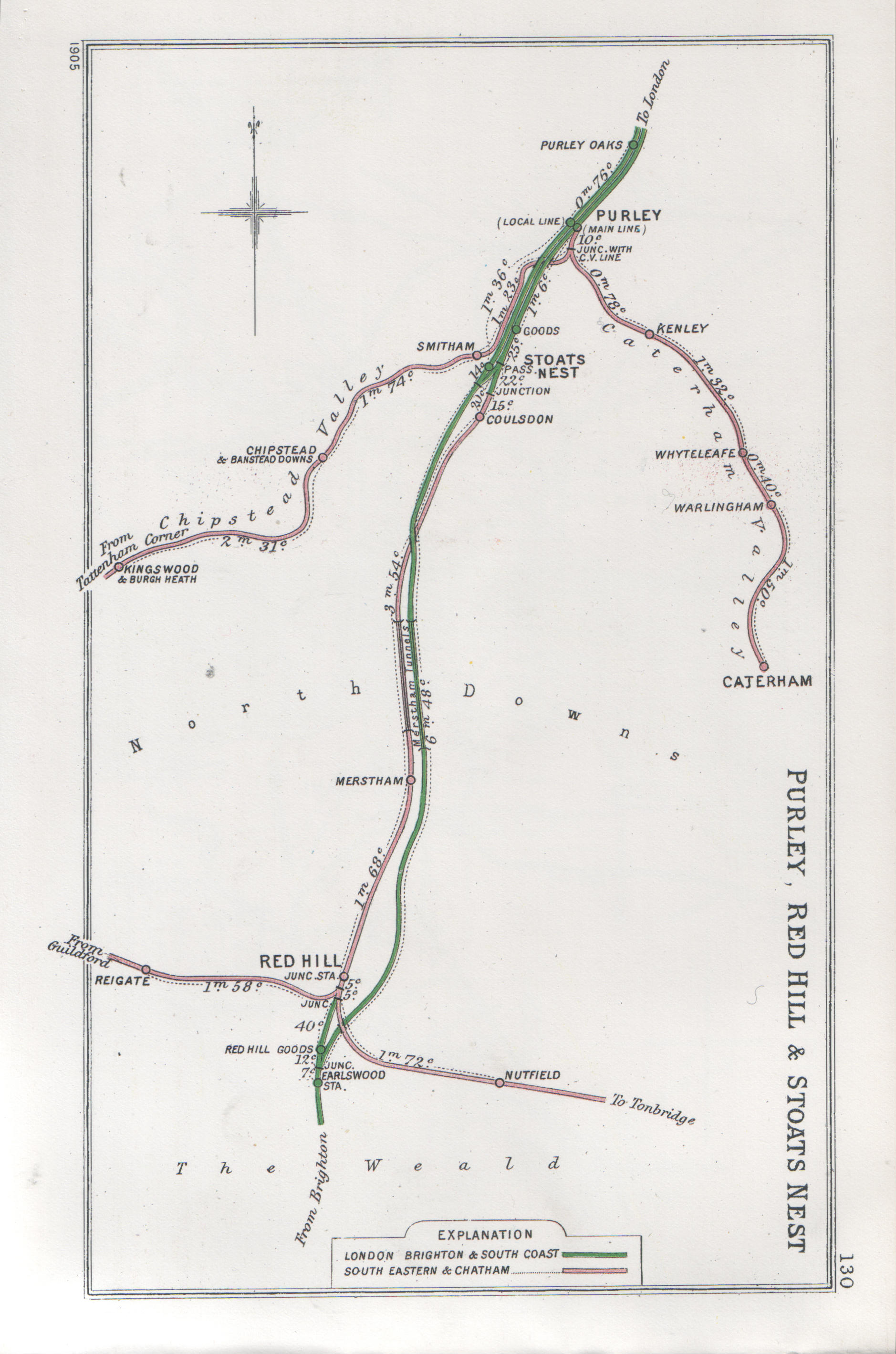 Purley, Redhill & Stoats Nest Junction